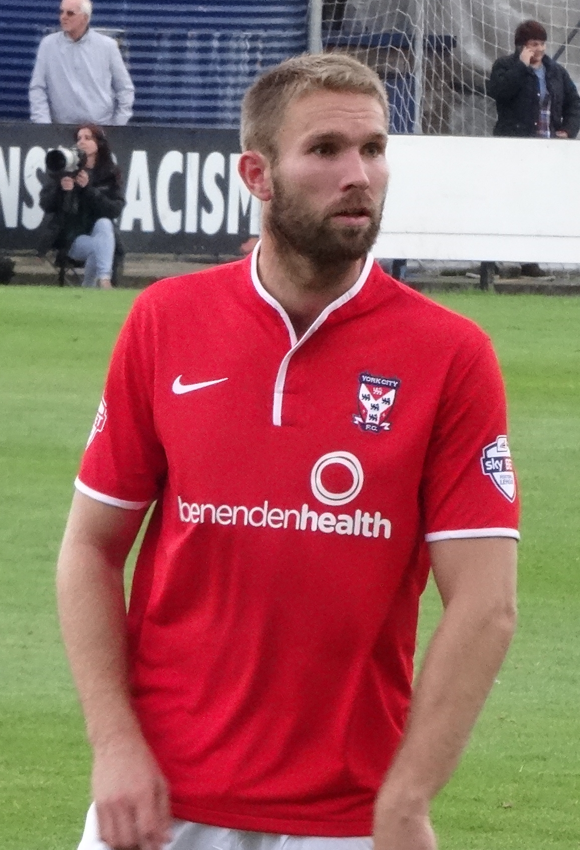 John McCombe playing for York City against Northampton Town at Bootham Crescent, York on 16 August 2014